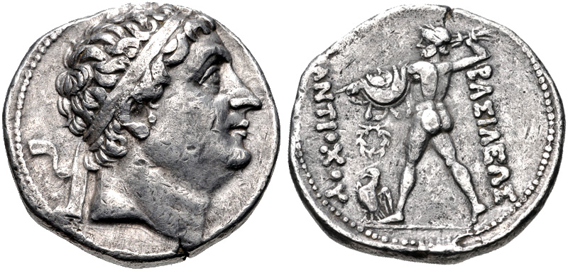 Diodotos I in the name of Antiochos II Mint A near Ai-Khanoum. Circa 255-235 BC. AR Tetradrachm (27mm, 16.08 g, 6h). In the name of Antiochos II of Syria. Mint A (near Aï Khanoum). Diademed head right / Zeus Bremetes advancing left; to inner left, wreath above eagle standing left.